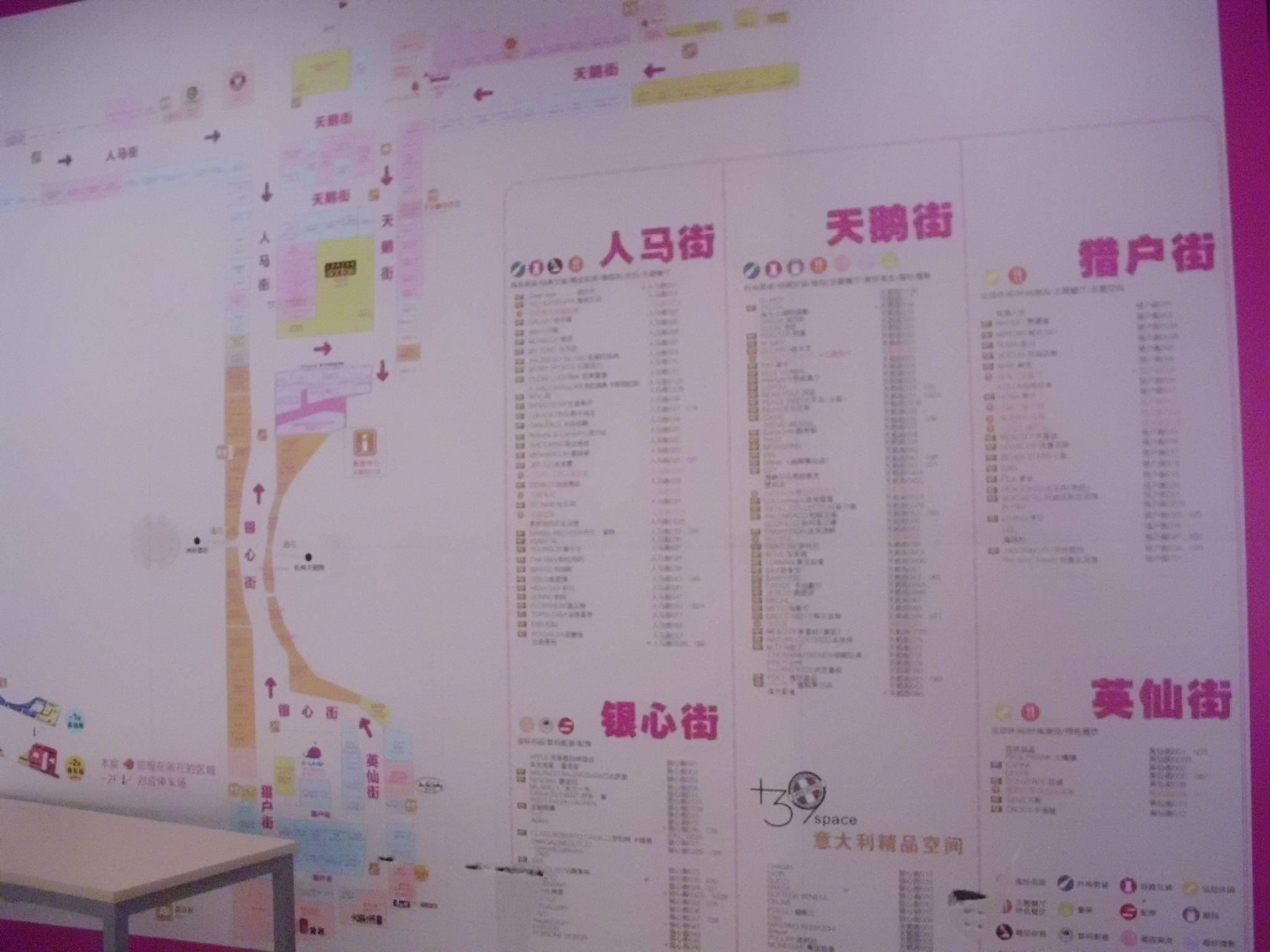 sasseur life plaza